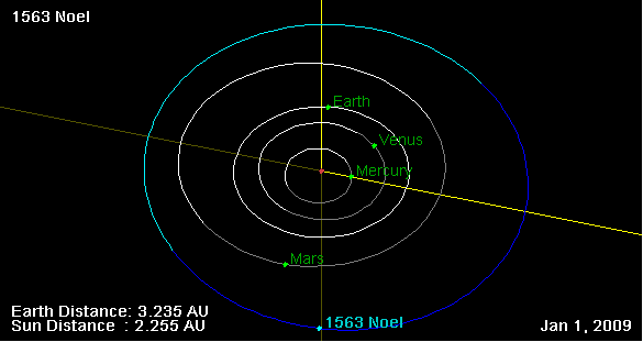 1563 Noël orbit, and his position on 01 Jan 2009 (NASA Orbit Viewer applet)